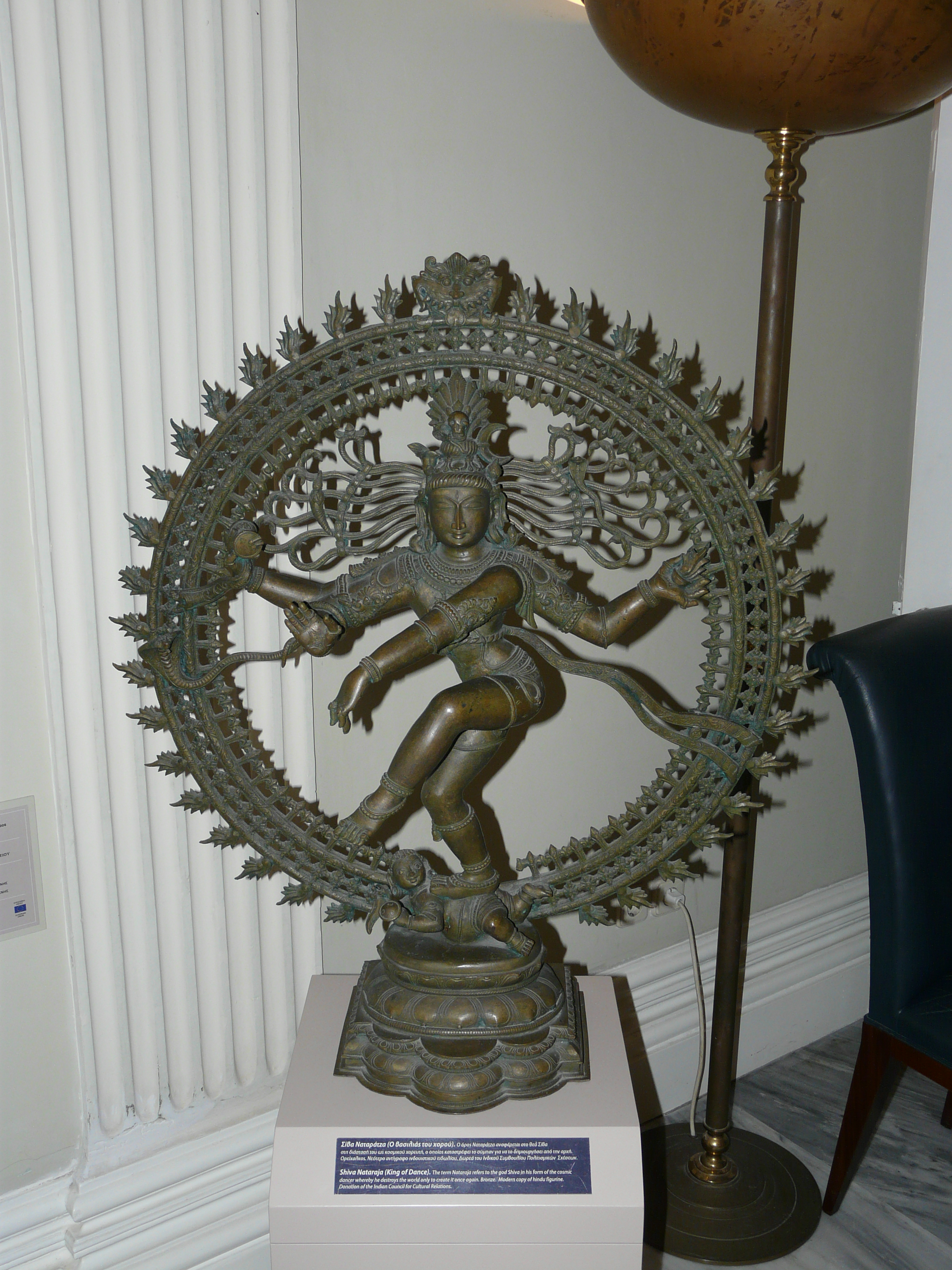 Museum of Asian art of Corfu. Corfu town.Corfu, Greece. A donation of the Indian Council for Cultural Relations